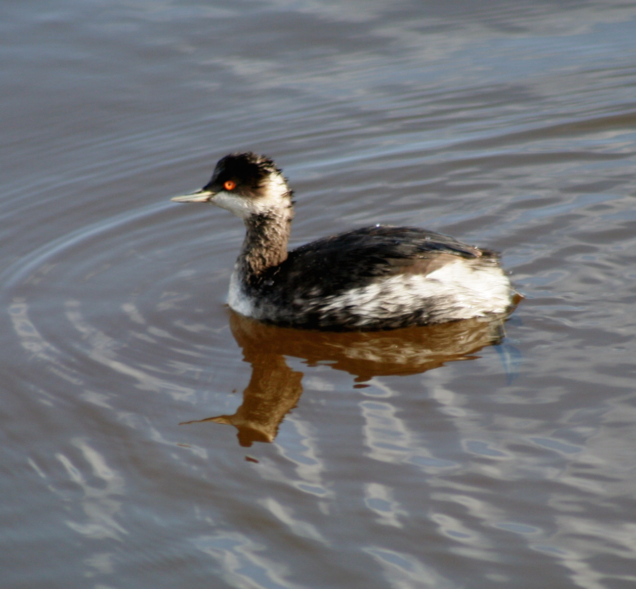 Podiceps nigricollis in winter plumage, Ghadira Nature Reserve, Malta